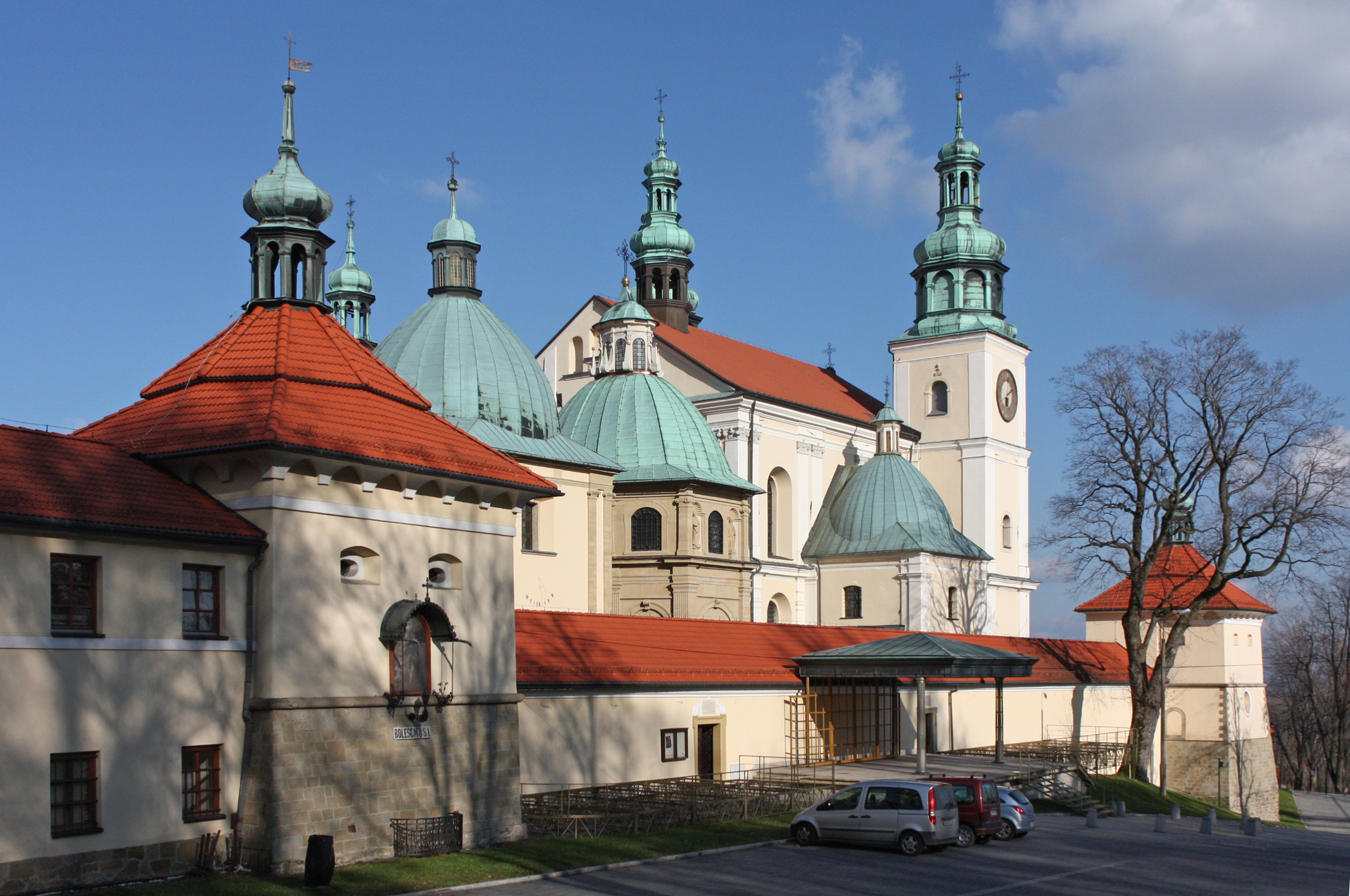 Basilica of St. Mary in Kalwaria Zebrzydowska